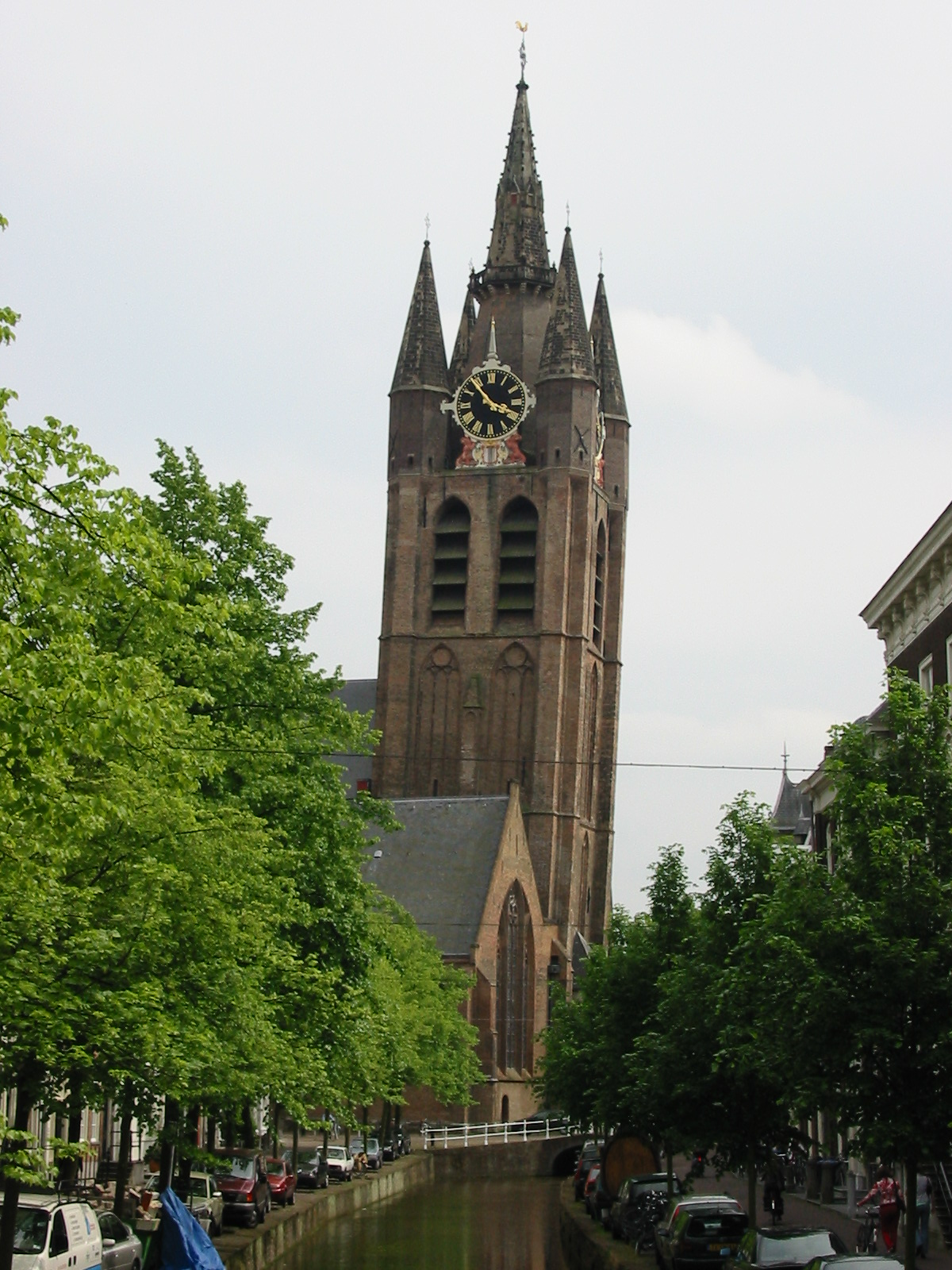 Oude Kerk, Delft, viewed from the north